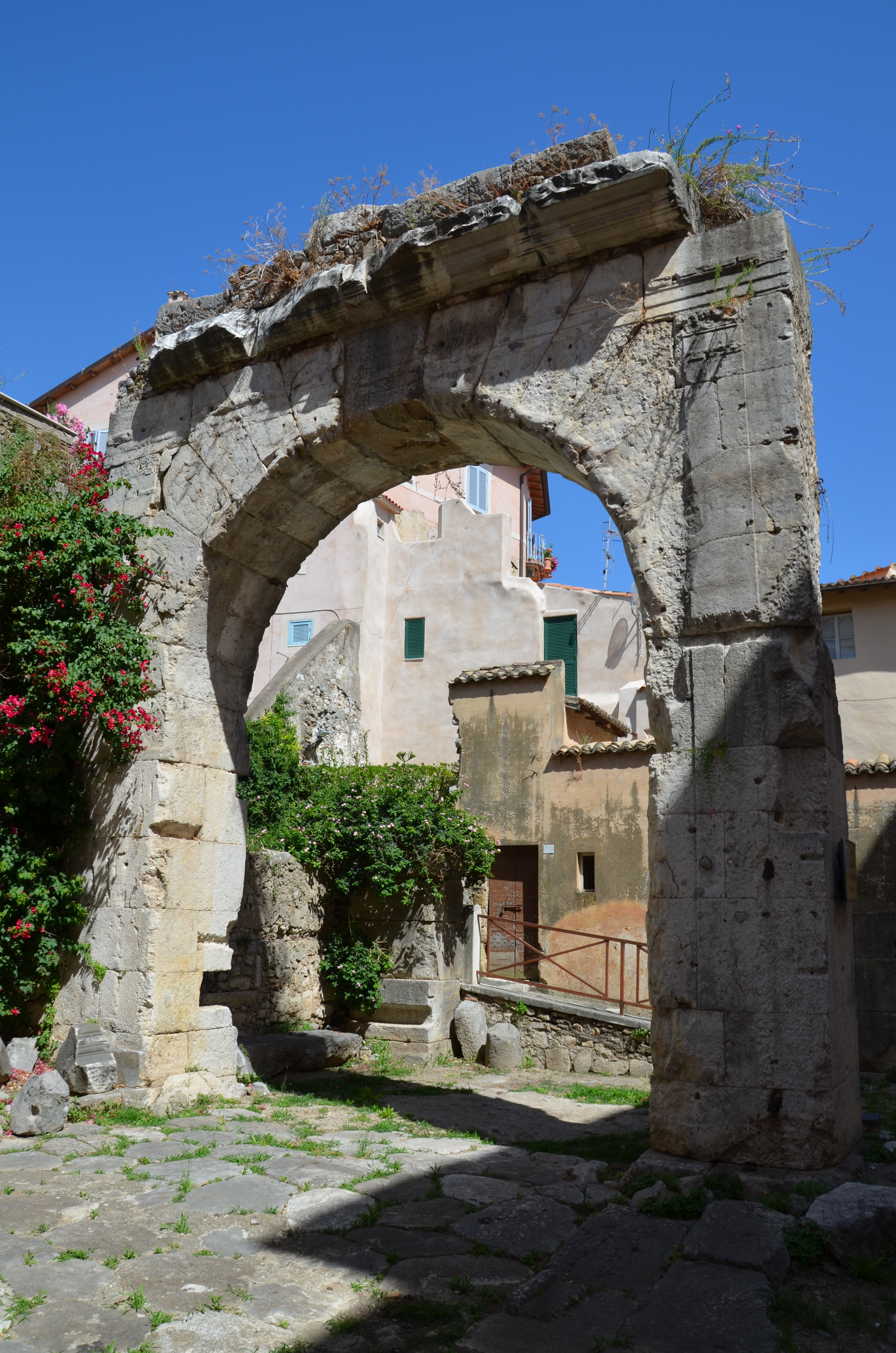 Remaining side of the quadrifrons (four-sided) arch under which lay a well-preserved stretch of the ancient Via Appia, Tarracina (Anxur), Terracina, Italy